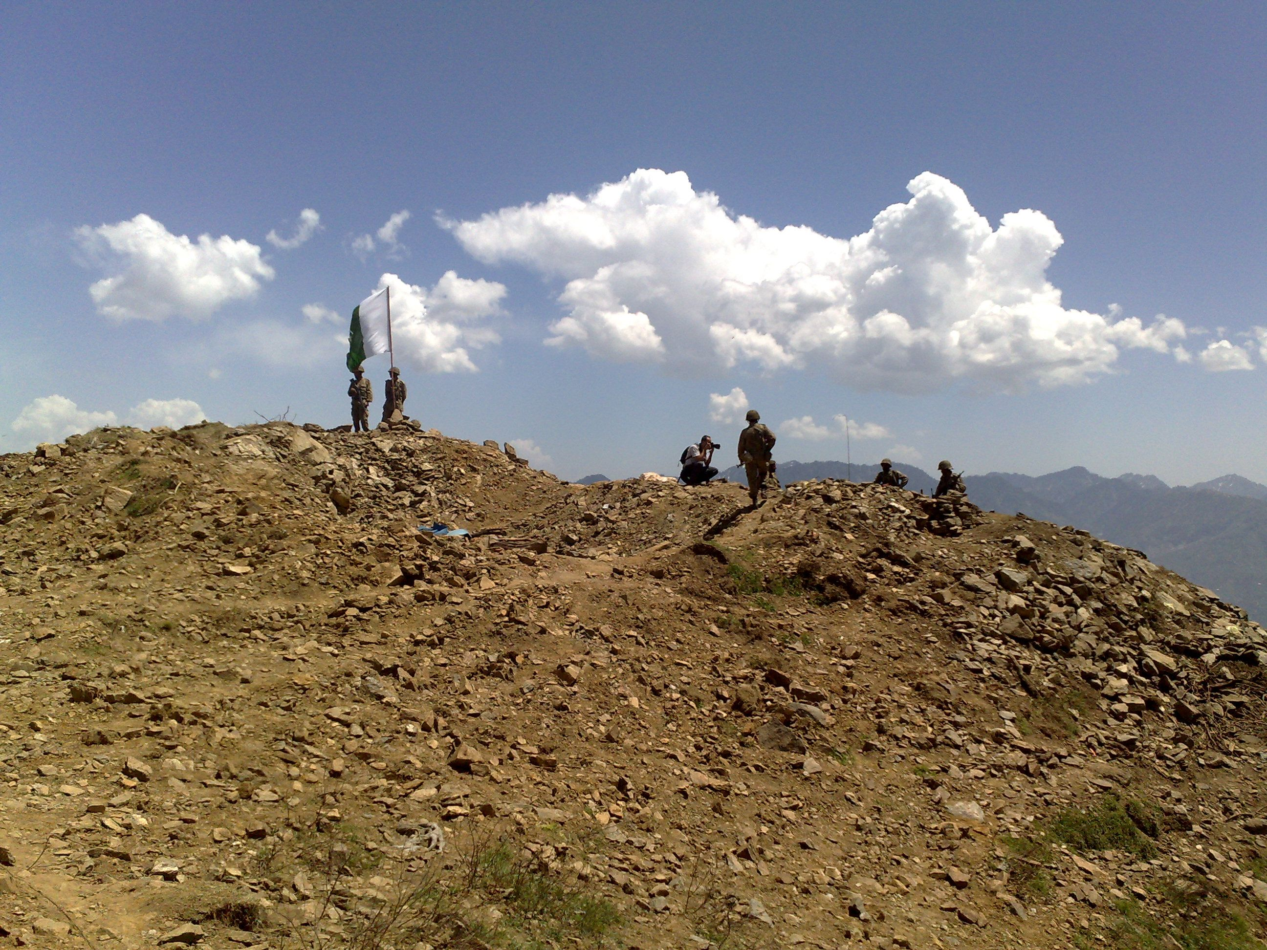 Pakistani forces captured Baine Baba Ziarat, the highest point in Swat valley, 10 days ago.